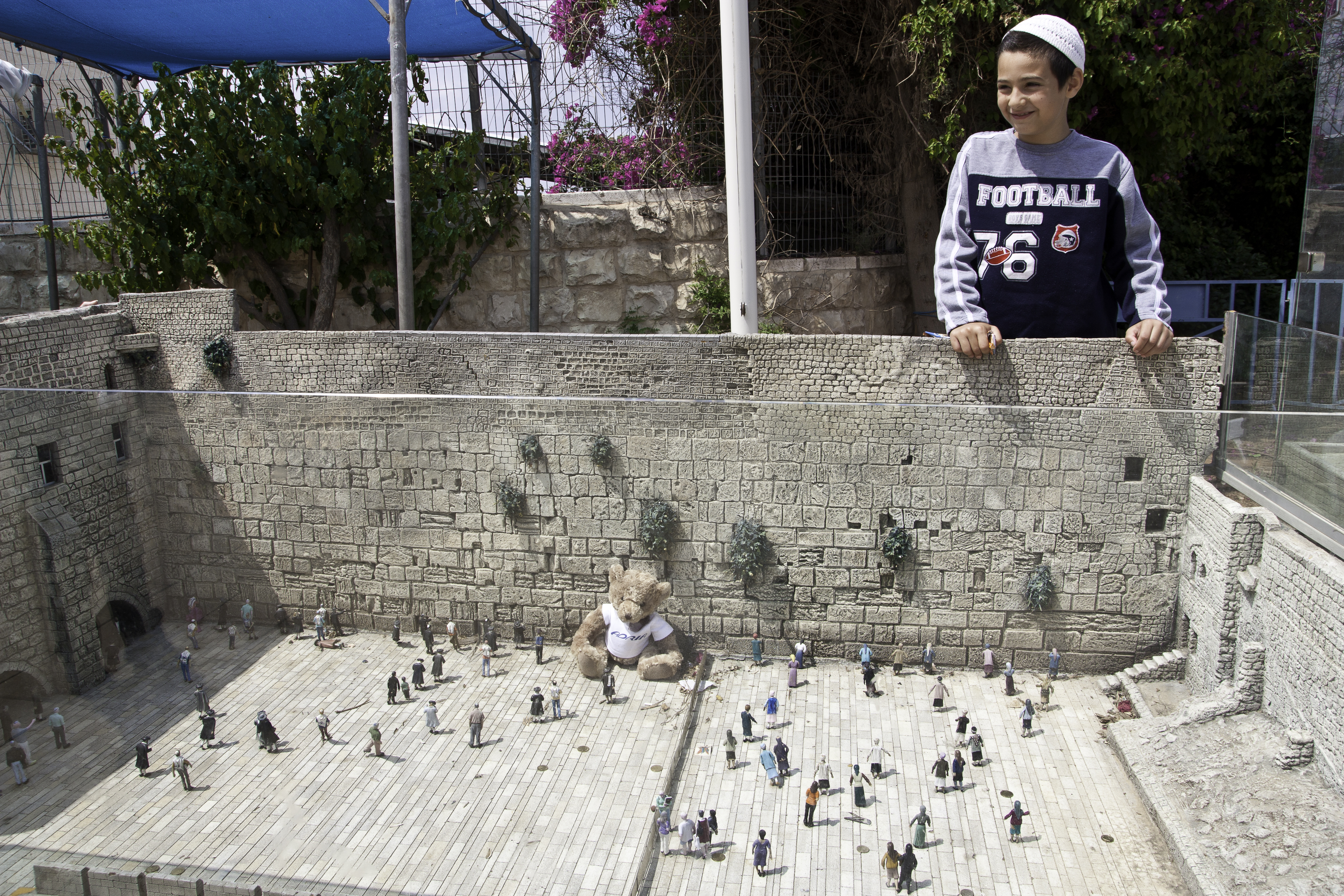 by Alberto Peral